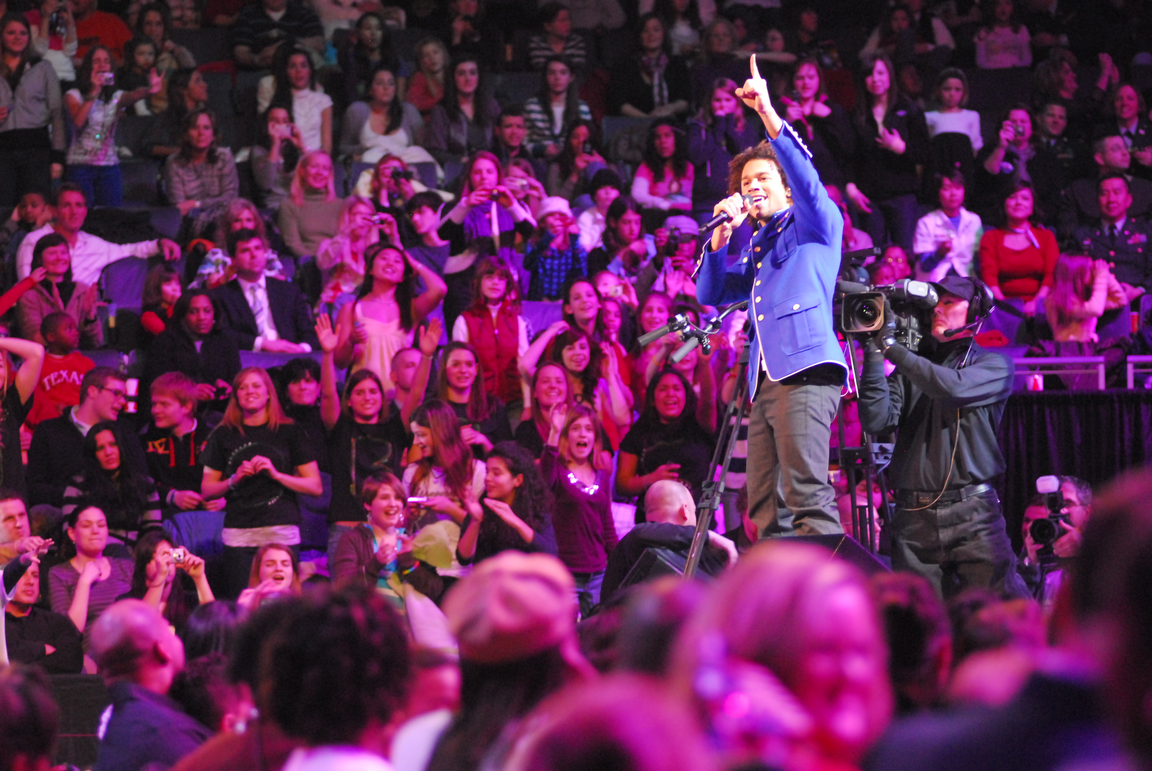 Corbin Bleu at Kids' Inaugural